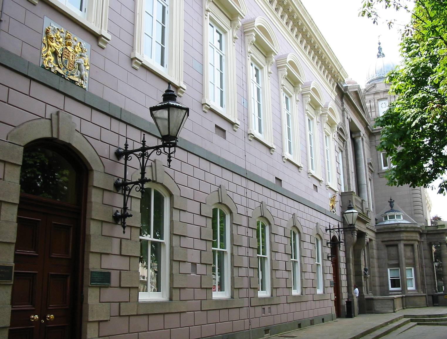 Royal Court, States Bulding, Saint Helier, Jersey